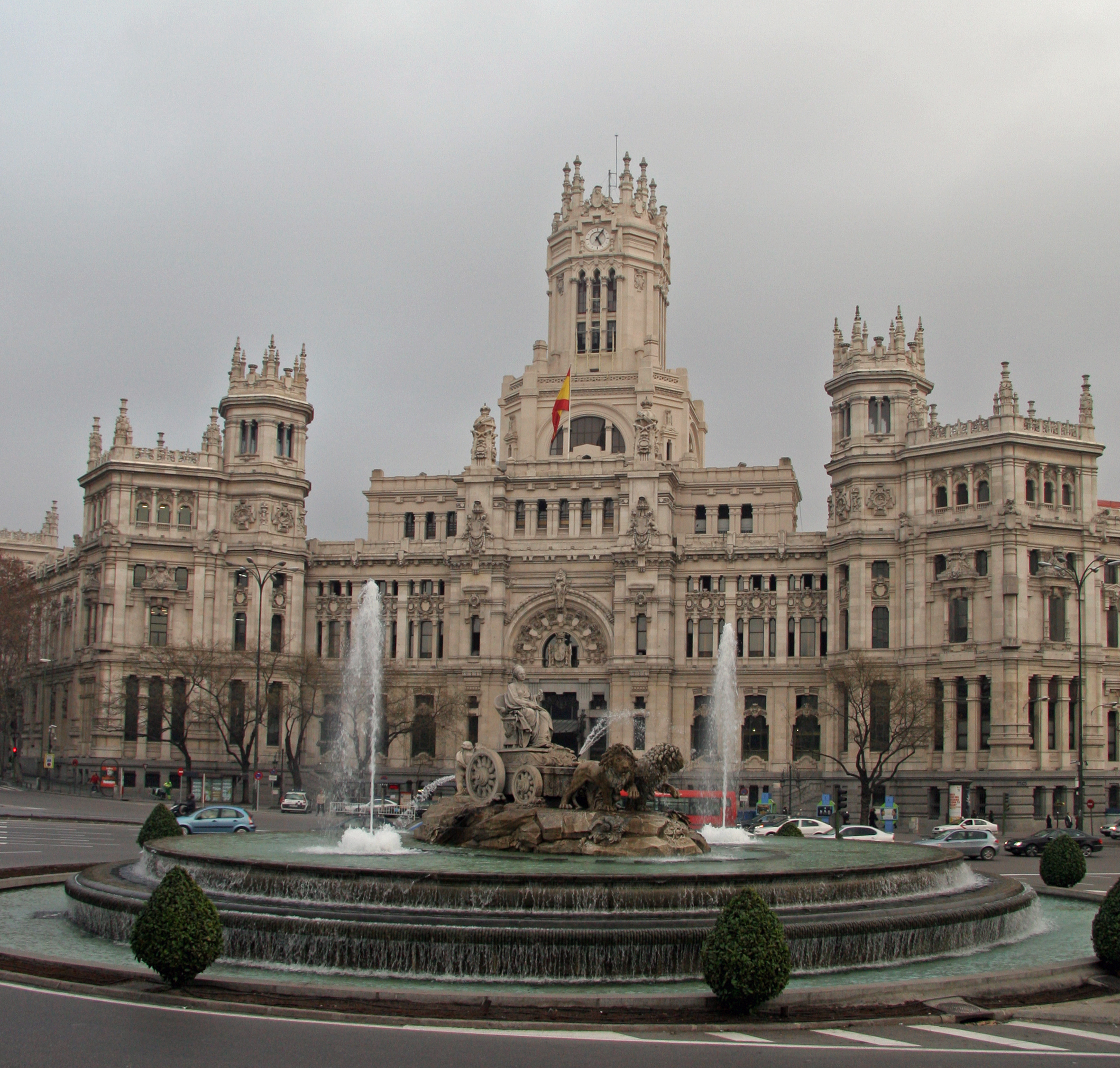 Plaza de Cibeles (square) in Madrid (Spain). Foreground: Fountain of Cybele. In the background, Palacio de Comunicaciones (Madrid's city hall since 2007).